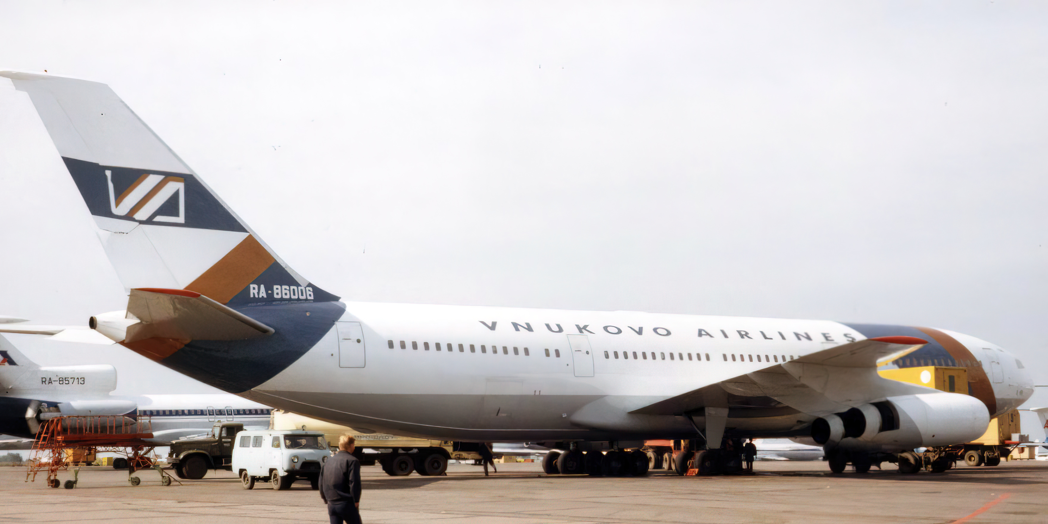 Ilyushin Il-86 RA-86006 of Vnukovo Airlines at Moscow (Vnukovo) Airport